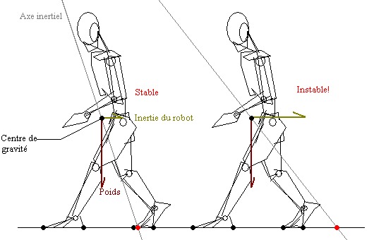 A diagram in order to explain the Zero moment point.